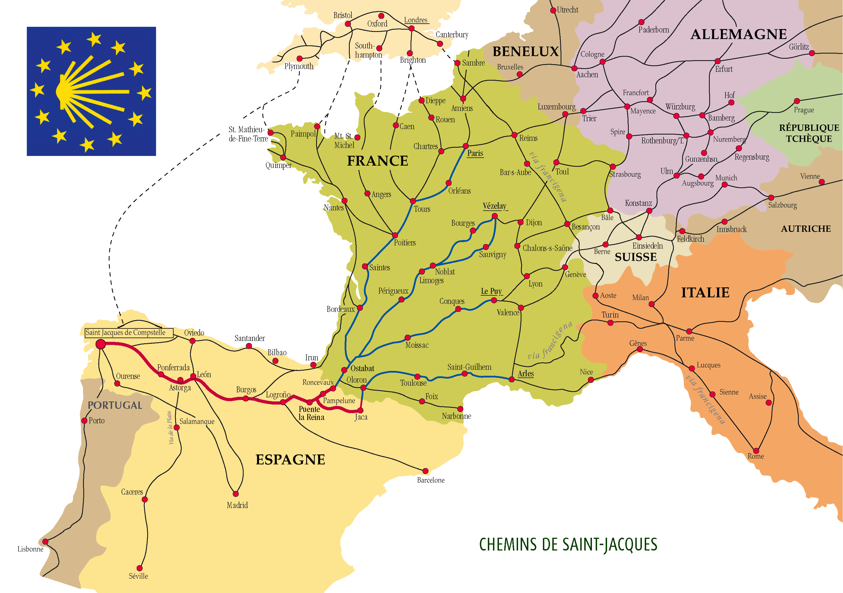 Map of the way of St James In Europe